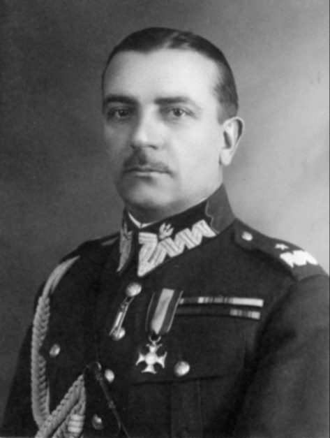 Konstanty Plisowski (1890-1950), polish general, defence commander of the Brześć Fortress (1939) for example